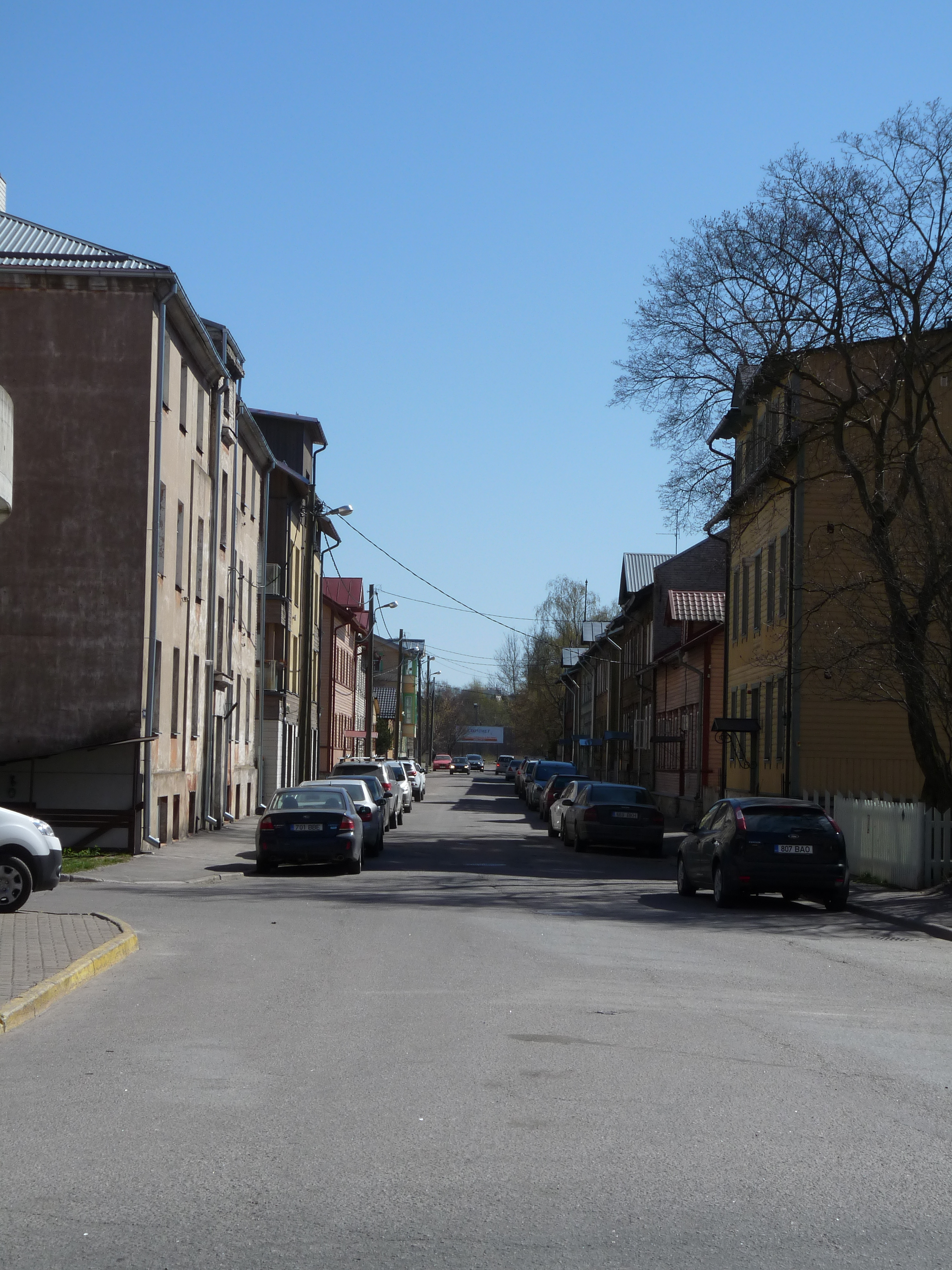 Paide street in Tallinn, Estonia